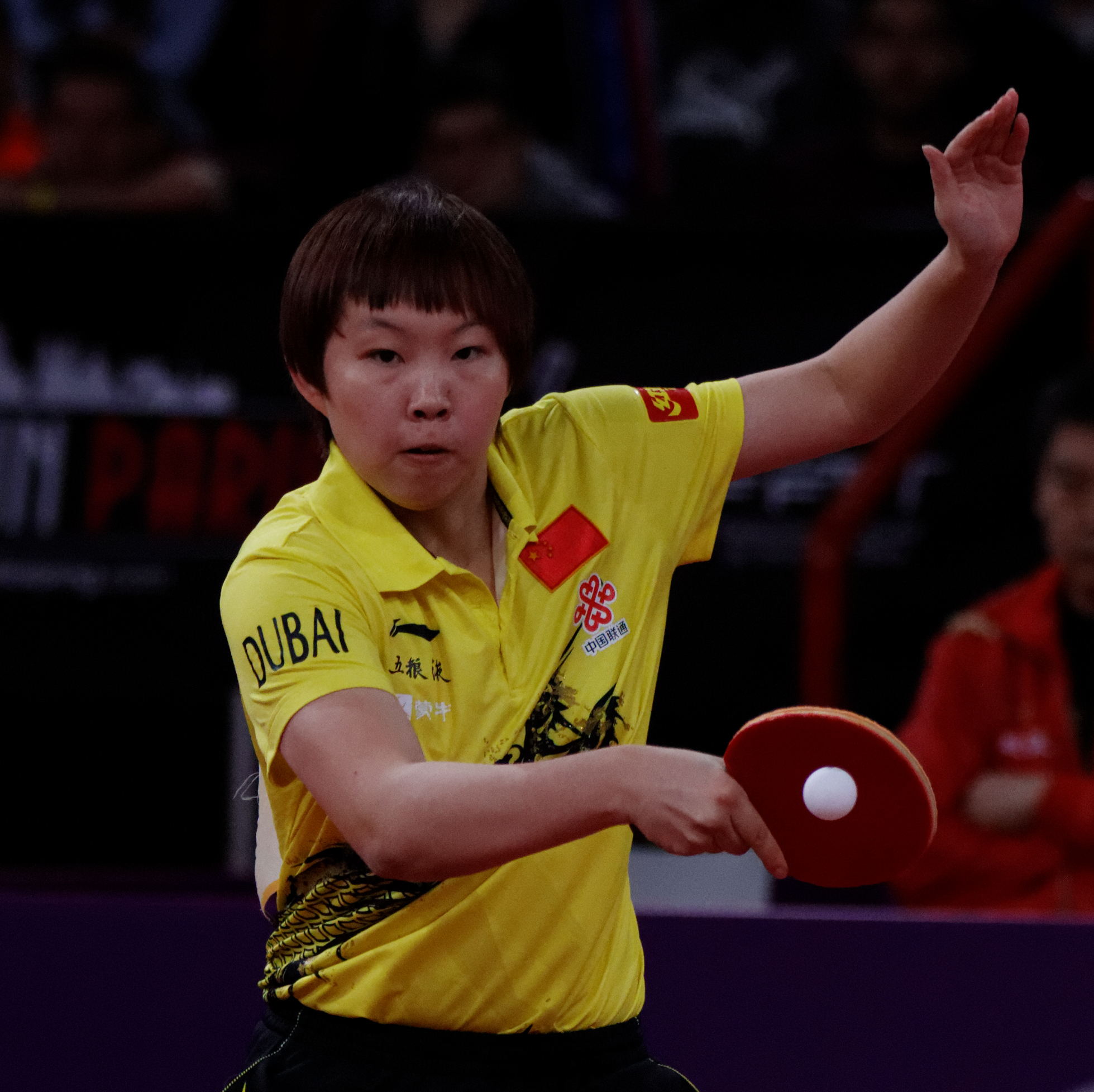 2013 World Table Tennis Championships, Paris. Women's Singles Quarterfinal. Zhu Yuling vs Feng Tianwei.